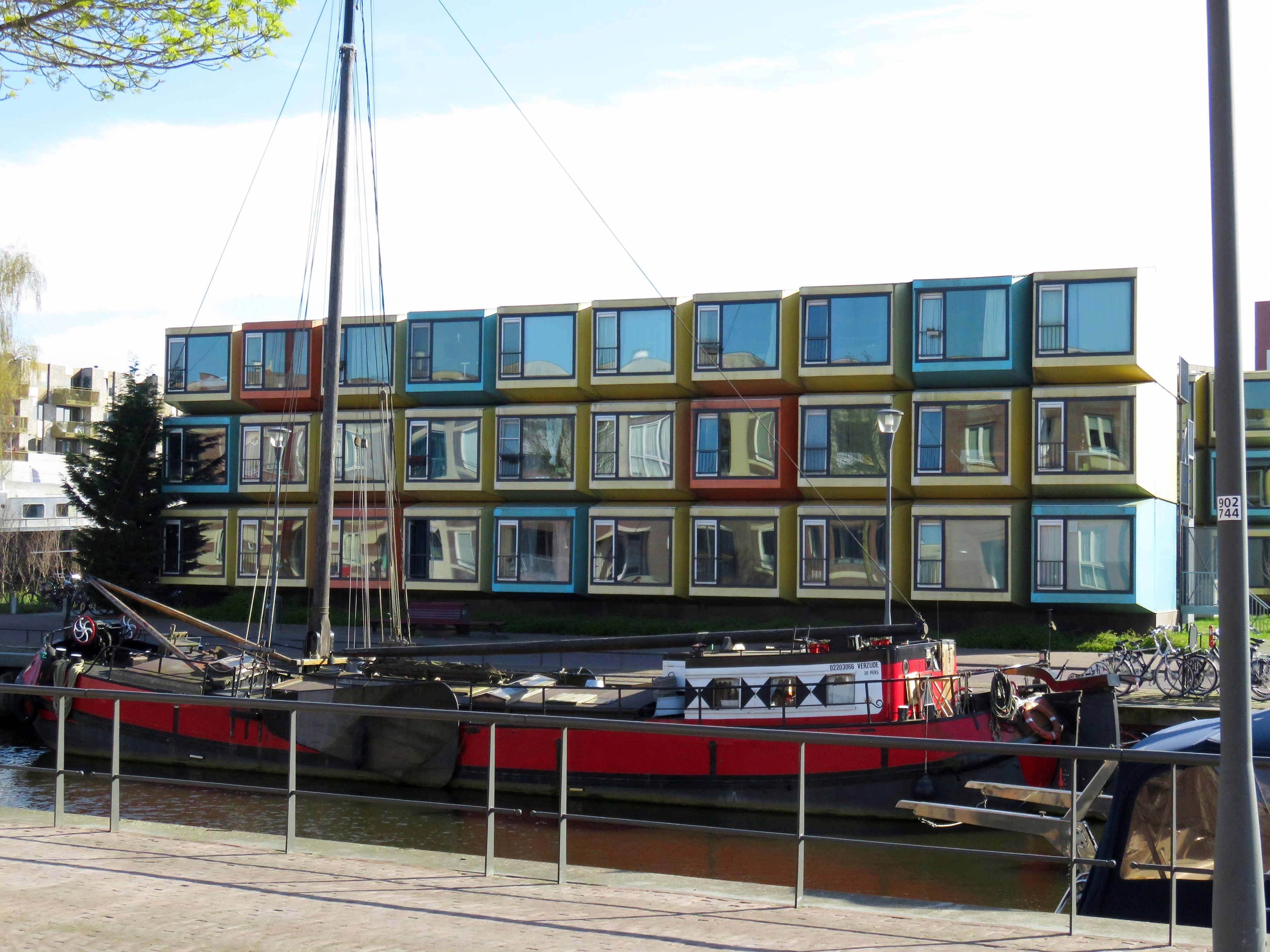 Temporary student housing at the Kleine Koppel in Amersfoort (NL). In front 'De Roode Kaat'